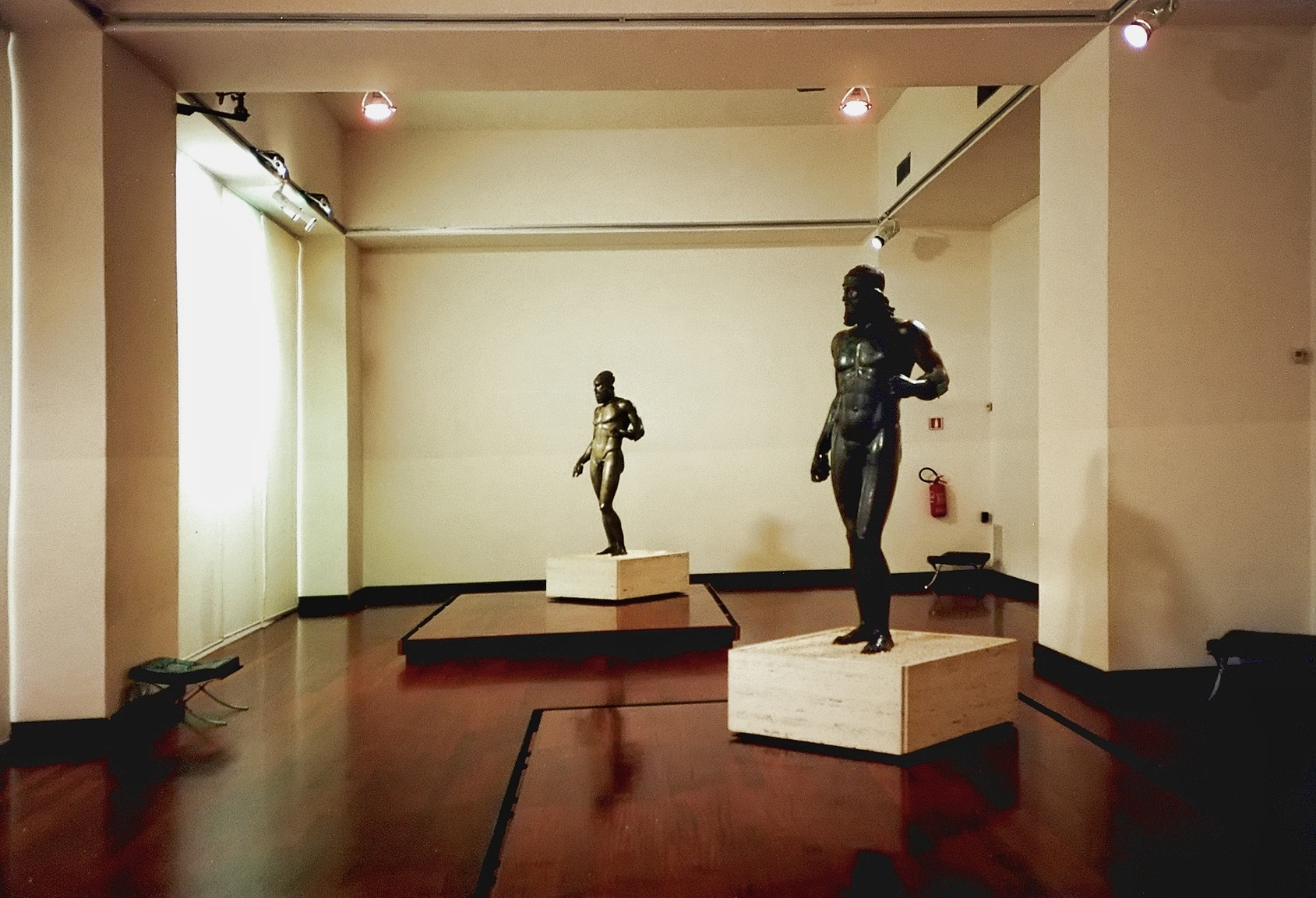 In the year 1972 two bronze statues from greece dating back to 460 until 430 b.c. were found on the bottom of the Ionic Sea near Riace Marina in Calabria in Italy. Since 1981 they are on view in the Museo Nazionale Di Reggio Calabria. The statues are put up on earthquake-proof platforms.